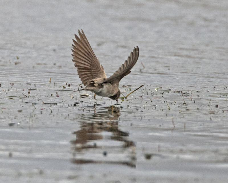 Plain Martin / Brown-throated Martin Riparia paludicola Nominate race, Riparia paludicola paludicola 16th. August 2011 Marievale, Gauteng, South Africa 690V9378